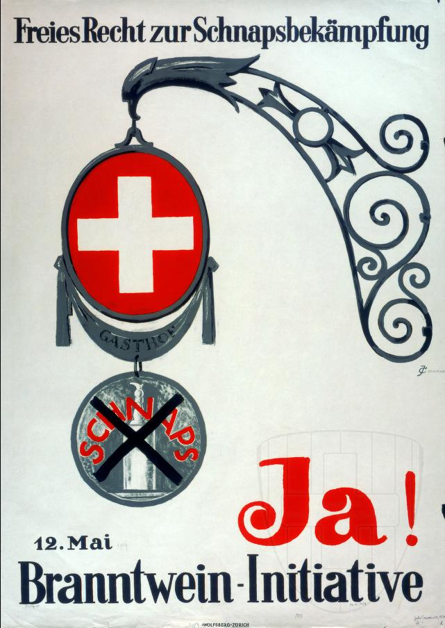 Advertisement for swiss votation of 1929 against spirits